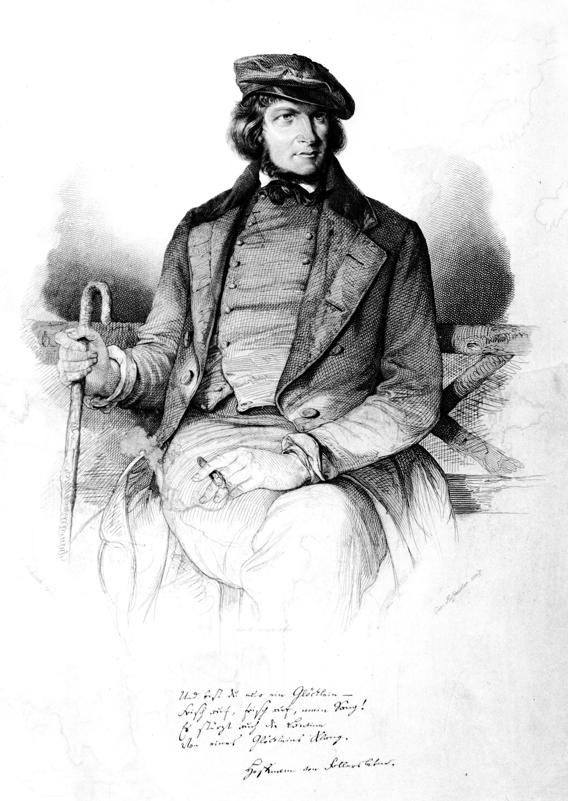 August Heinrich Hoffmann von Fallersleben